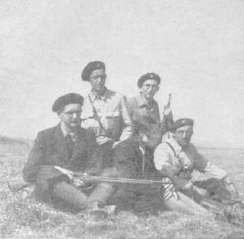 V Grahovem. Od leve: Balantič,Tomažič, Lozar, Kremžar.